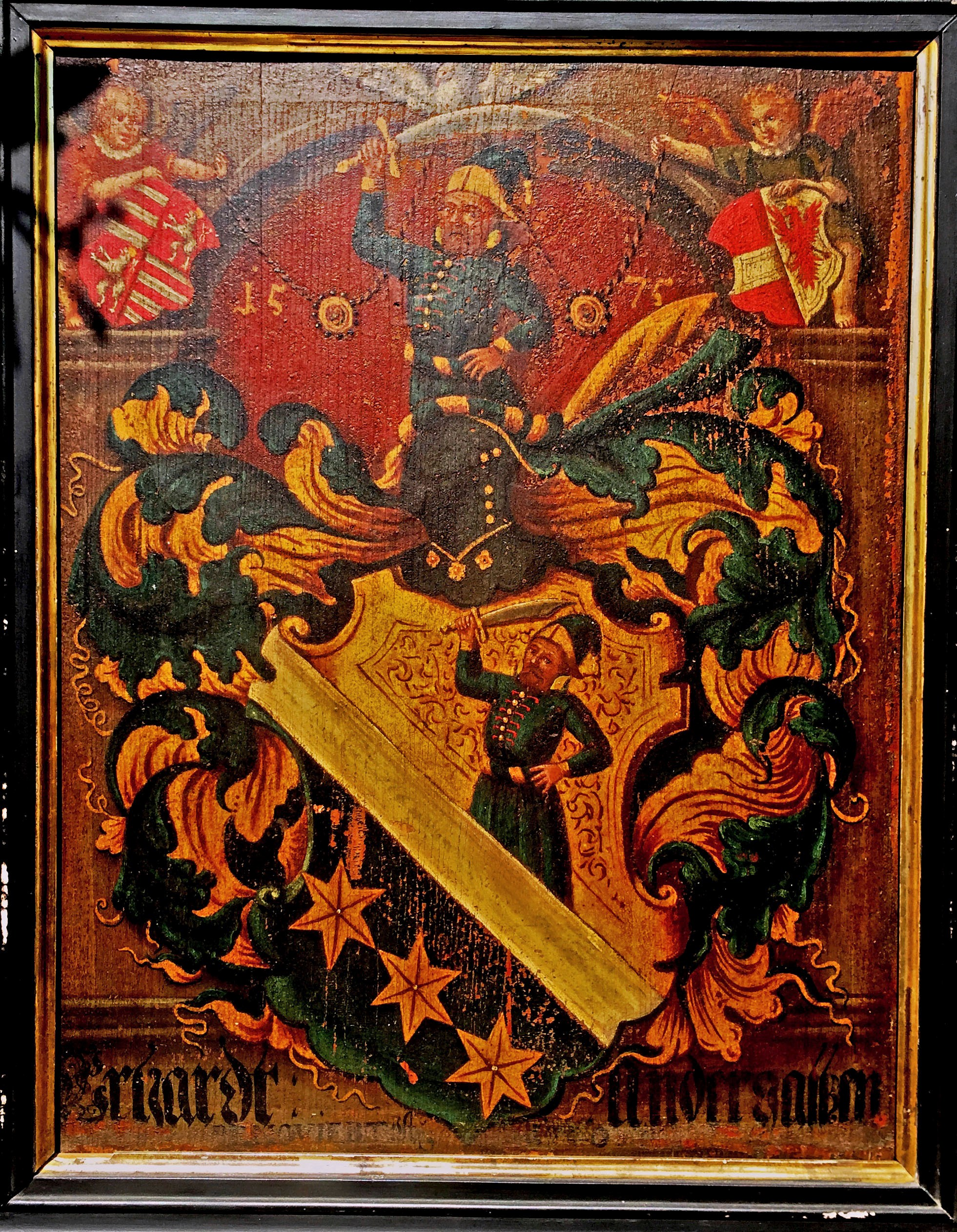 Coat of arms of Andergassen family. Erhardt an der Gassen. Um 1600. Painting